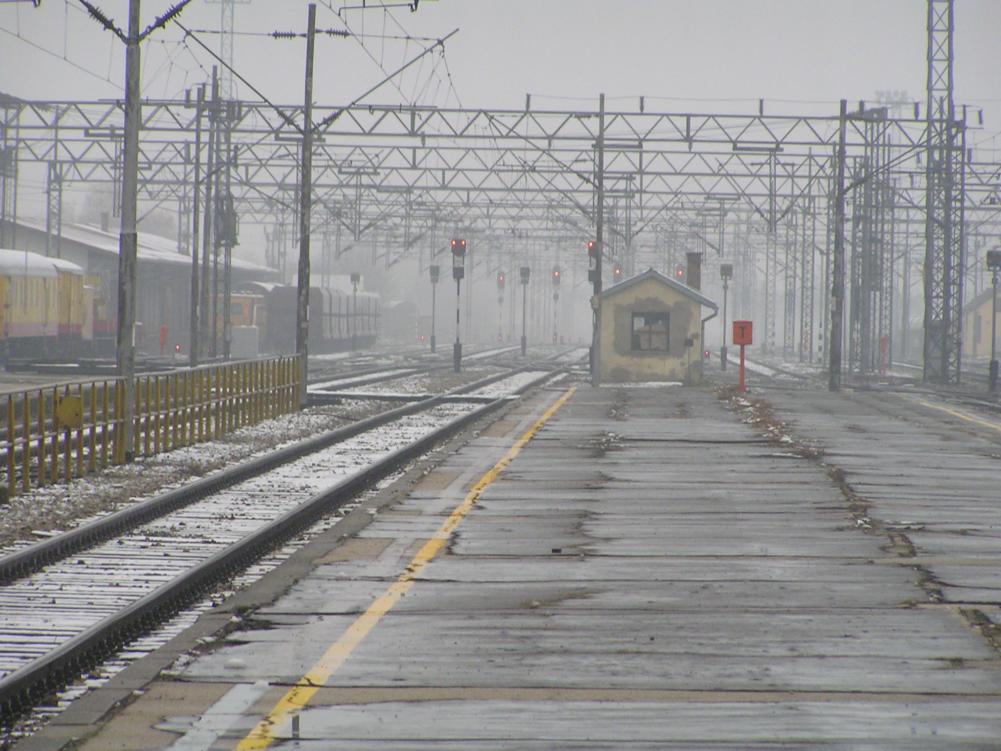 Paneuropean koridor 10, Vinkovci, westbound, in the distance is also a left tracksplit towards Županja